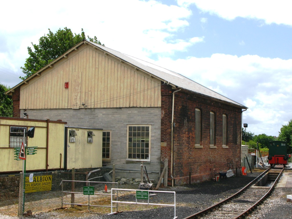 The old transfer shed at Yeovil Junction in Somerset, England. This is now part of a railway heritage site which also includes the turntable on which Ruston and Hornsby diesel shunter DS1174 is sitting.